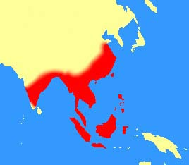 Map showing geographical distribution of flatworm Fasciolopsis buski.